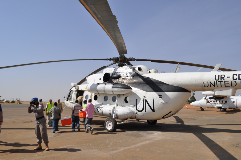 SE Gration and team arrive at UNAMID Headquarters via UN helicopter.